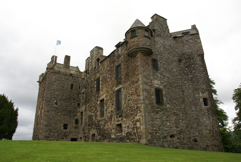 Elcho Castle, Elcho, Perth and Kinross, Scotland - from the east